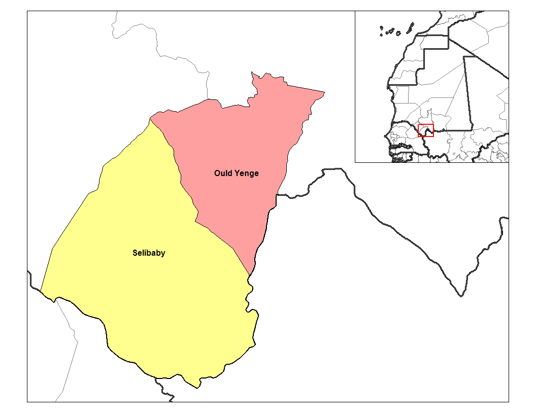 Map of the departments of Guidimaka region of Mauritania. Created by Rarelibra 20:11, 28 September 2006 (UTC) for public domain use, using MapInfo Professional v8.5 and various mapping resources.